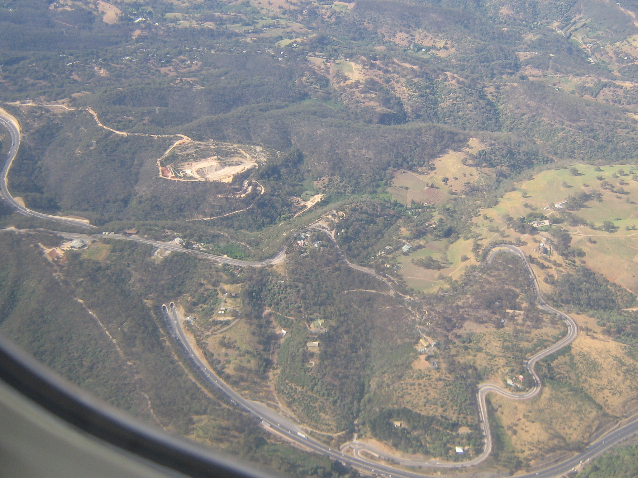 Adelaide-Crafers Highway ascending through the Heysen Tunnels showing the former Devil's Elbow and old Mount Barker Road winding up to Eagle on the Hill above the tunnel entrance.